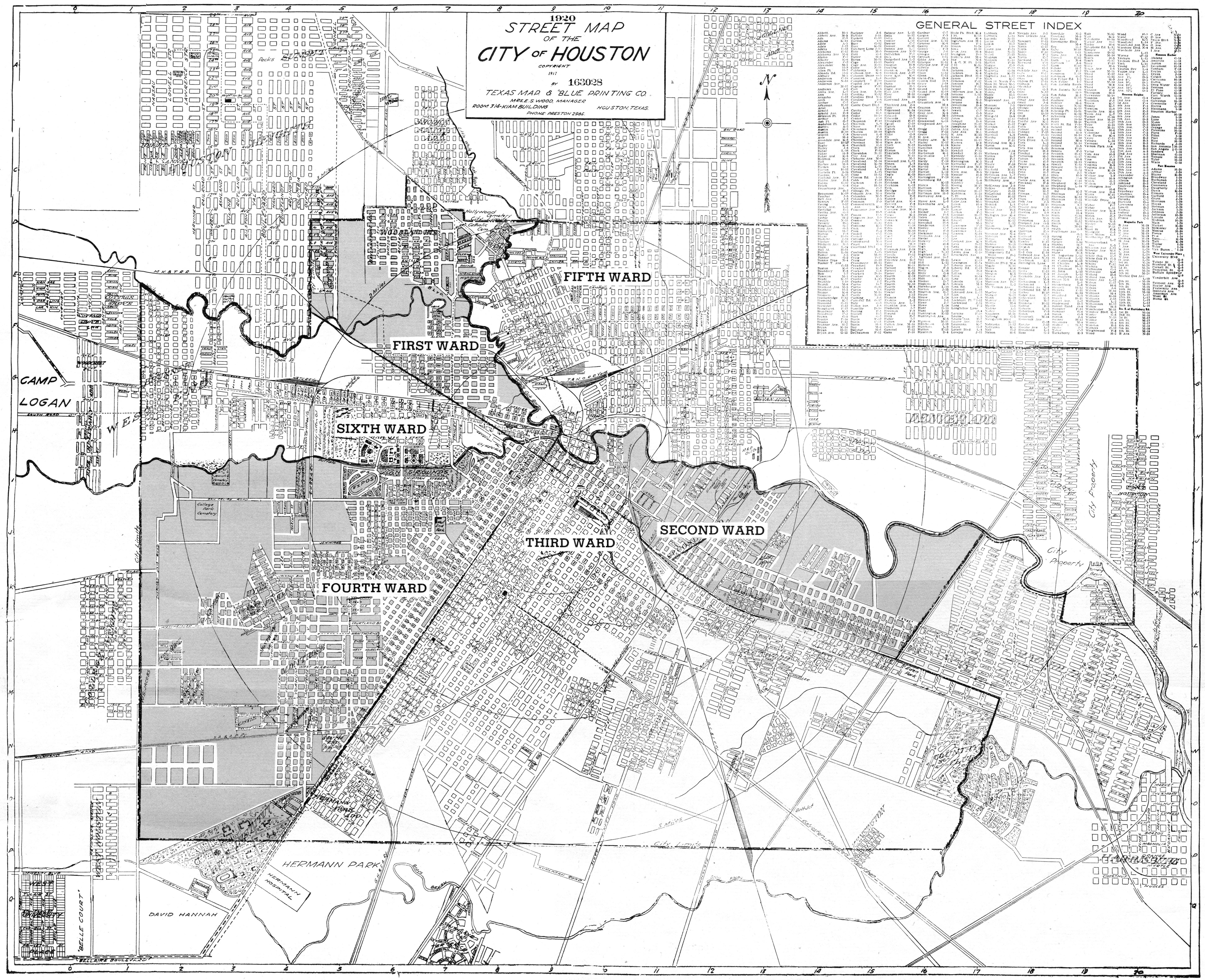 1920 Street Map of the wards of the City of Houston, copyrighted in 1917